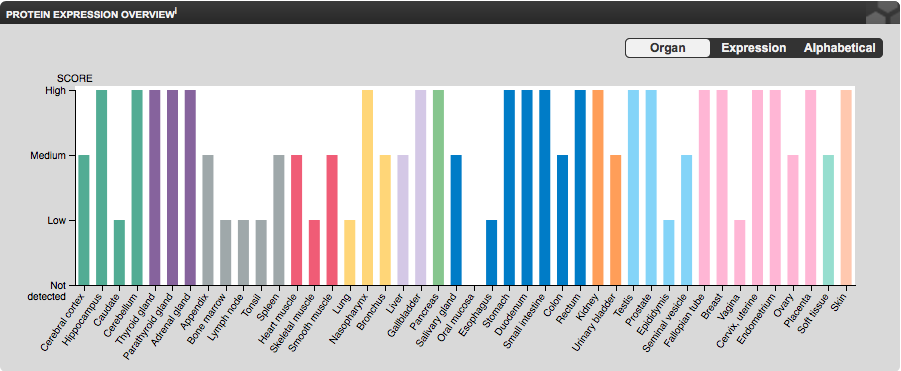 TMEM protein 254 tissue expression based on Human Protein Atlas